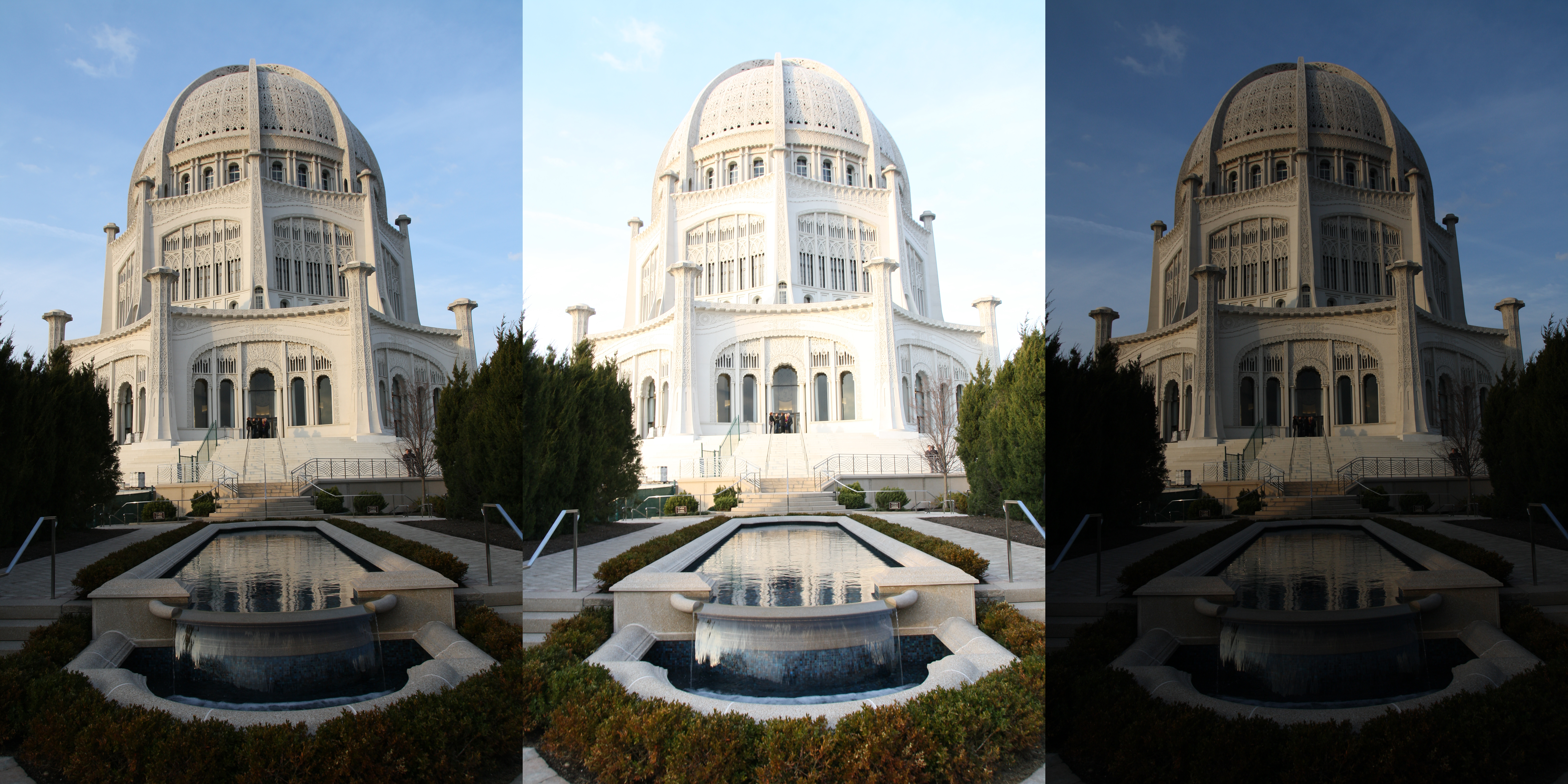 The original three photos that constitute the final tonemapped result that is this.